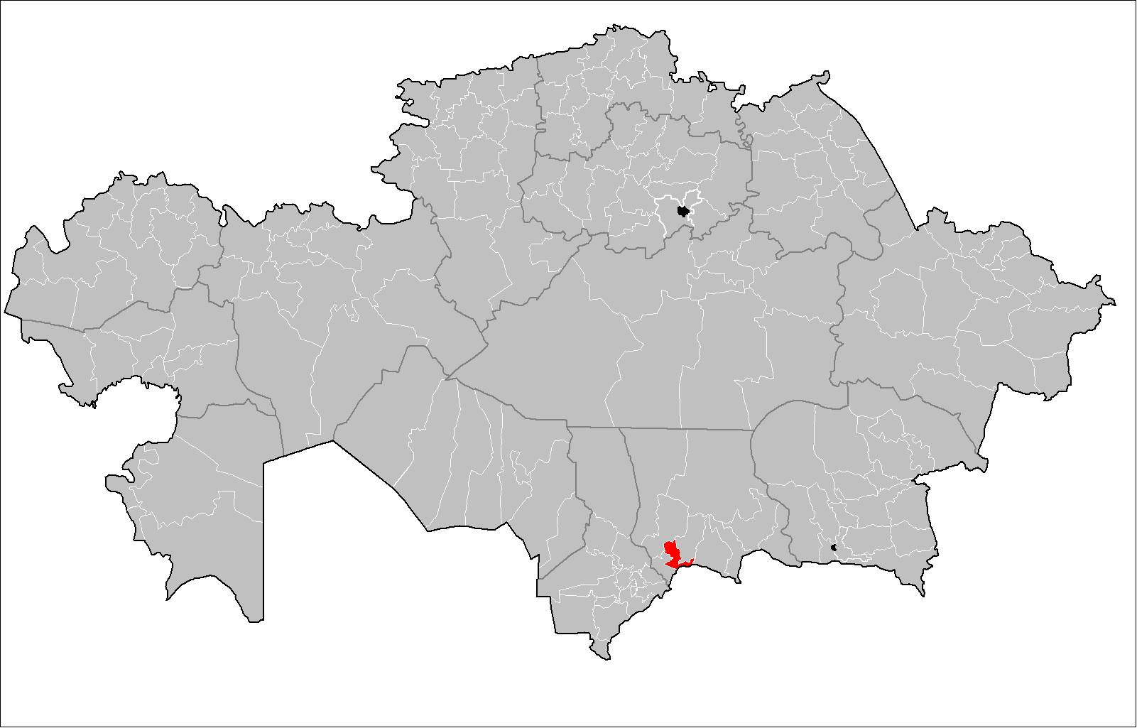 Map of the rayons of Kazakhstan. Created by Rarelibra 16:49, 3 August 2007 (UTC) for public domain use, using MapInfo Professional v8.5 and various mapping resources.